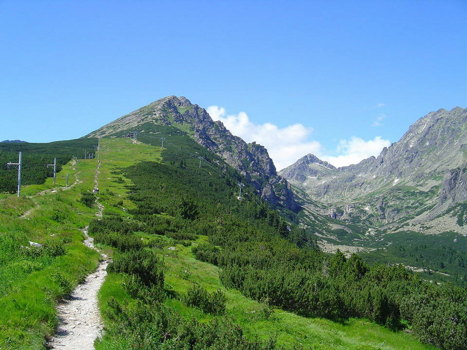 Strbske Solisko (left), Strbsky stit (in the back) and Mlynicka dolina (right)